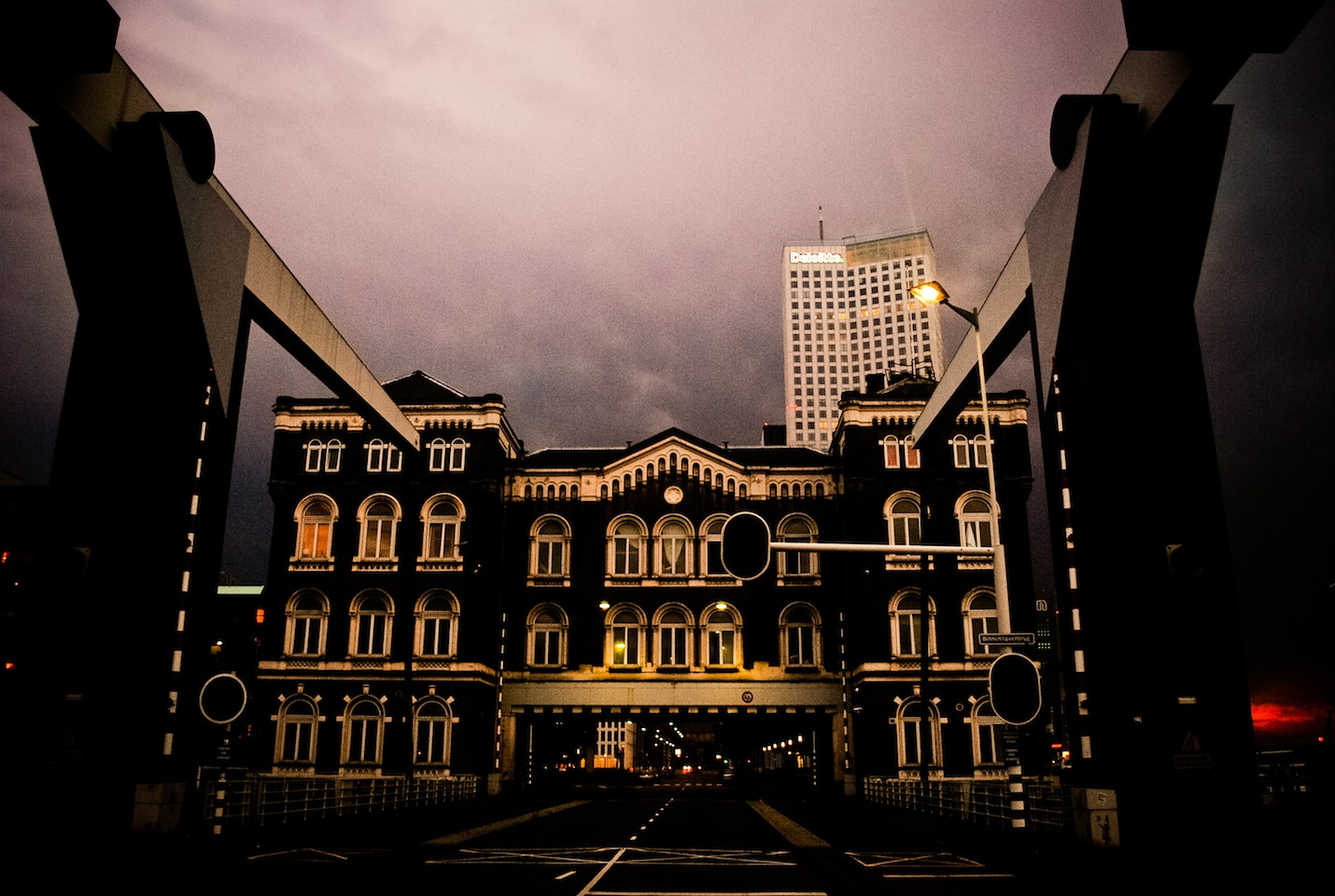 The Poortgebouw - a monument located in Rotterdam, Netherlands